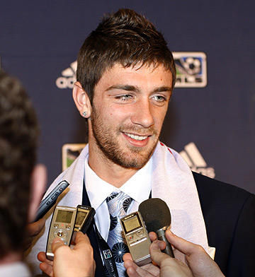 Stephen McCarthy drafted by New England Revolution